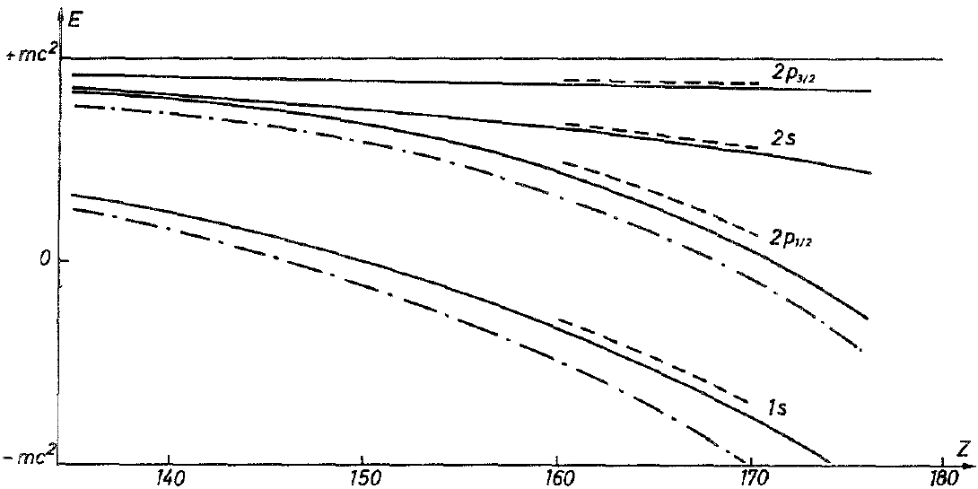 Energy eigenvalues for the 1s, 2s, 2p1/2 and 2p3/2 shells from solutions of the Dirac equation (taking into account the finite size of the nucleus) for Z = 135–175 (–·–), for the Thomas-Fermi potential (—) and for Z = 160–170 with the self-consistent potential (---).